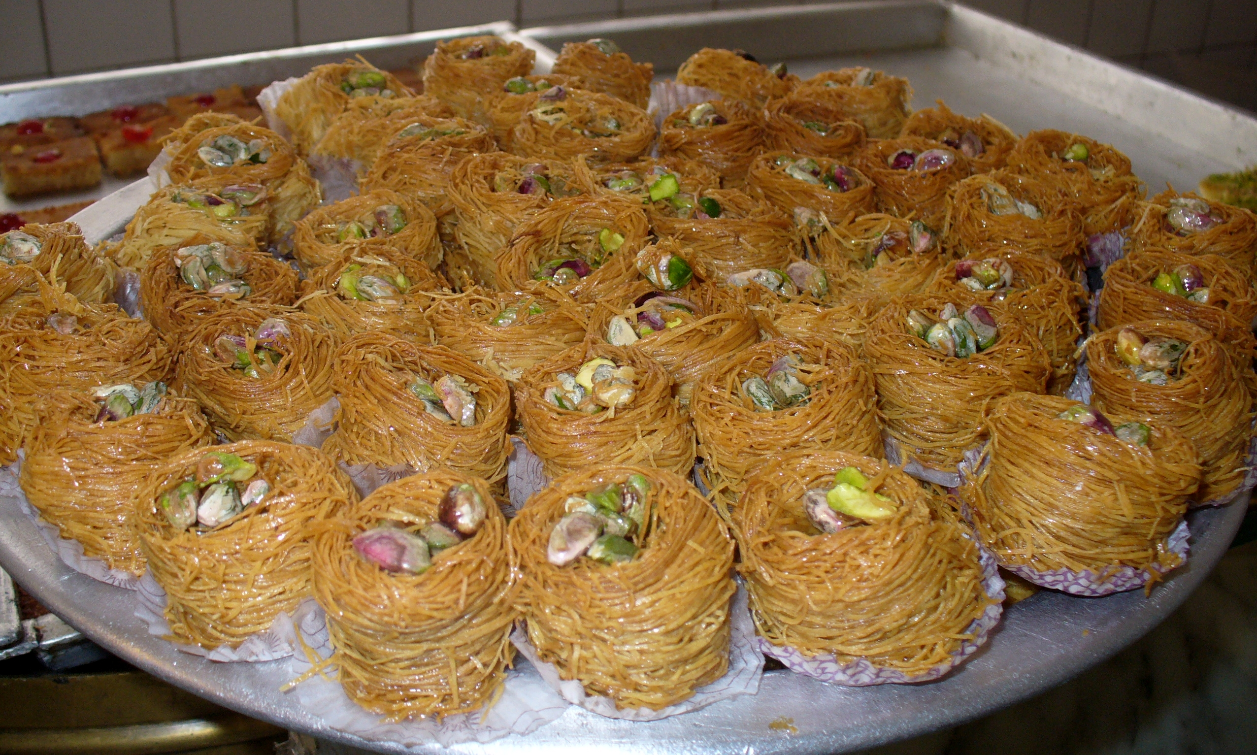 konafa, an Egyptian dessert made of thin pastry strands, nuts, and sweet syrup